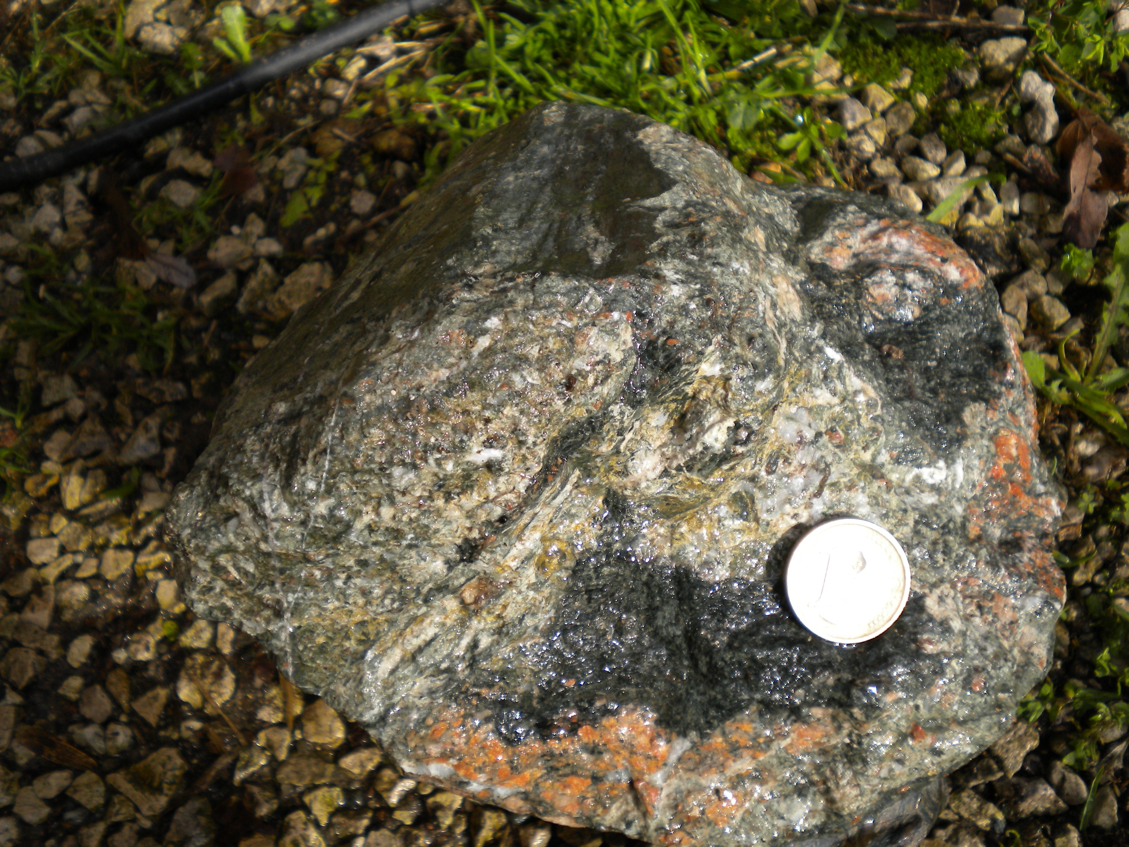 Quartz diorite from Mazières, Charente, France. The heavily tectonized quartz diorite shows dark amphibolitic inclusions and a slickensided fault surface at the top.